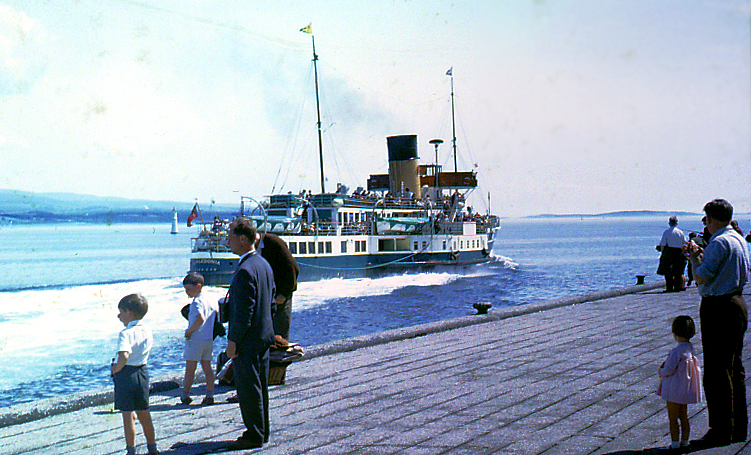 1934 Steamer Caledonia leaving from Dunoon, Argyll, Scotland.